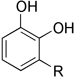 Chemical structure of urushiol created in ChemDraw.